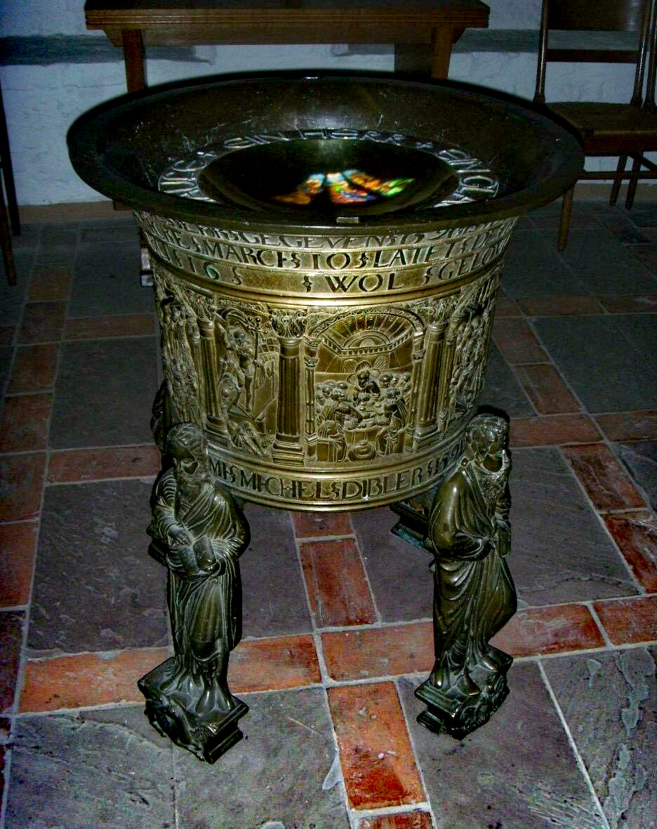 A Baptismal font in bronze by Michael Dibler from 1591.